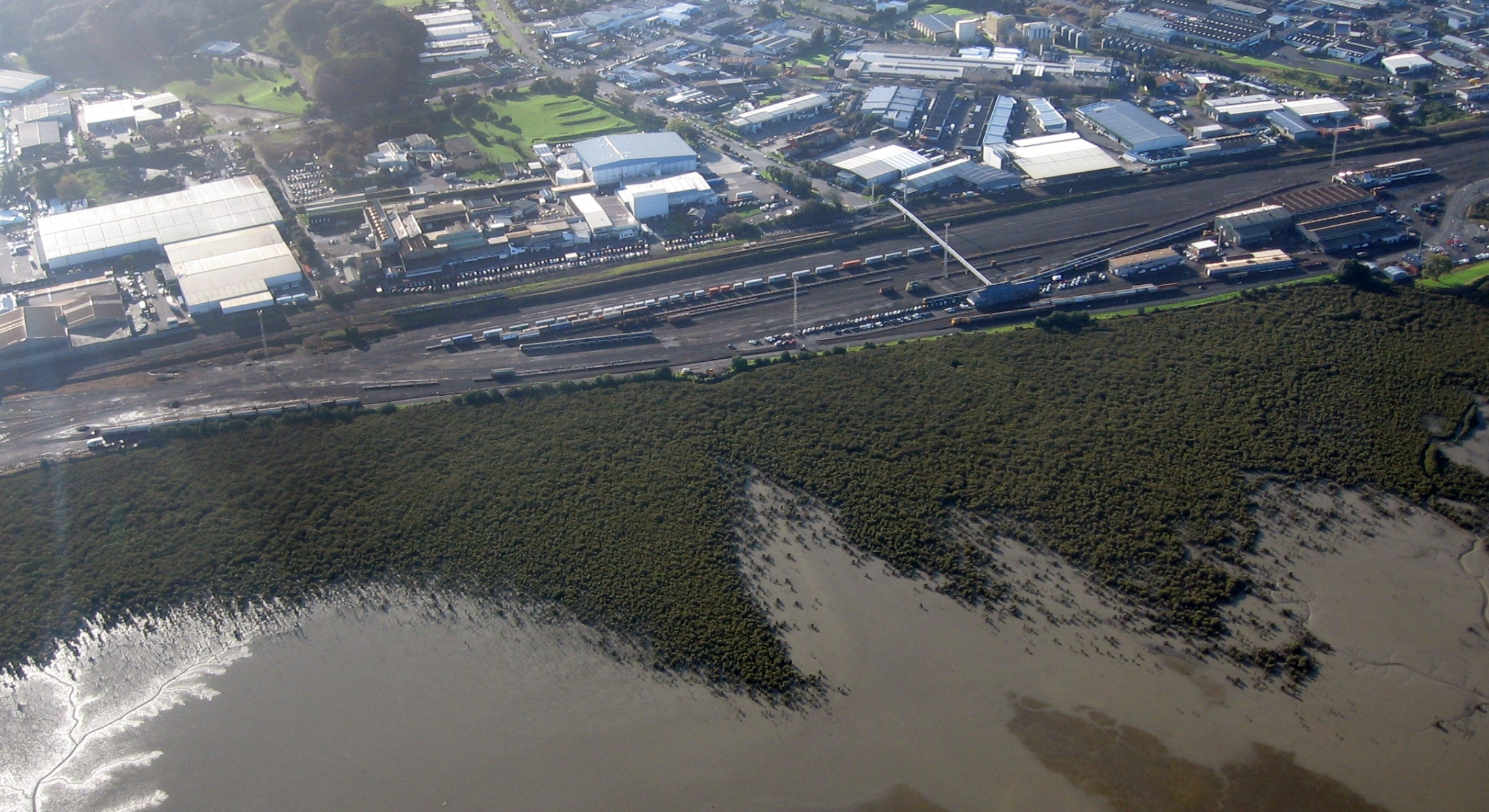 A look over the rail freight yards and the Westfield Train Station at Westfield, in Auckland, New Zealand.